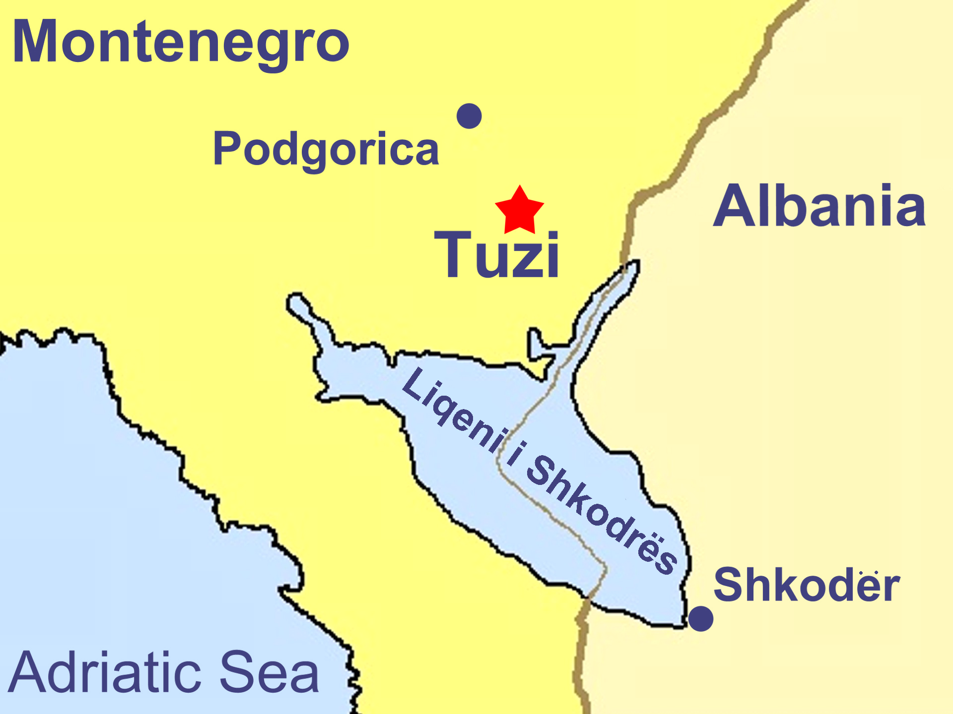 Tuzi Mapa